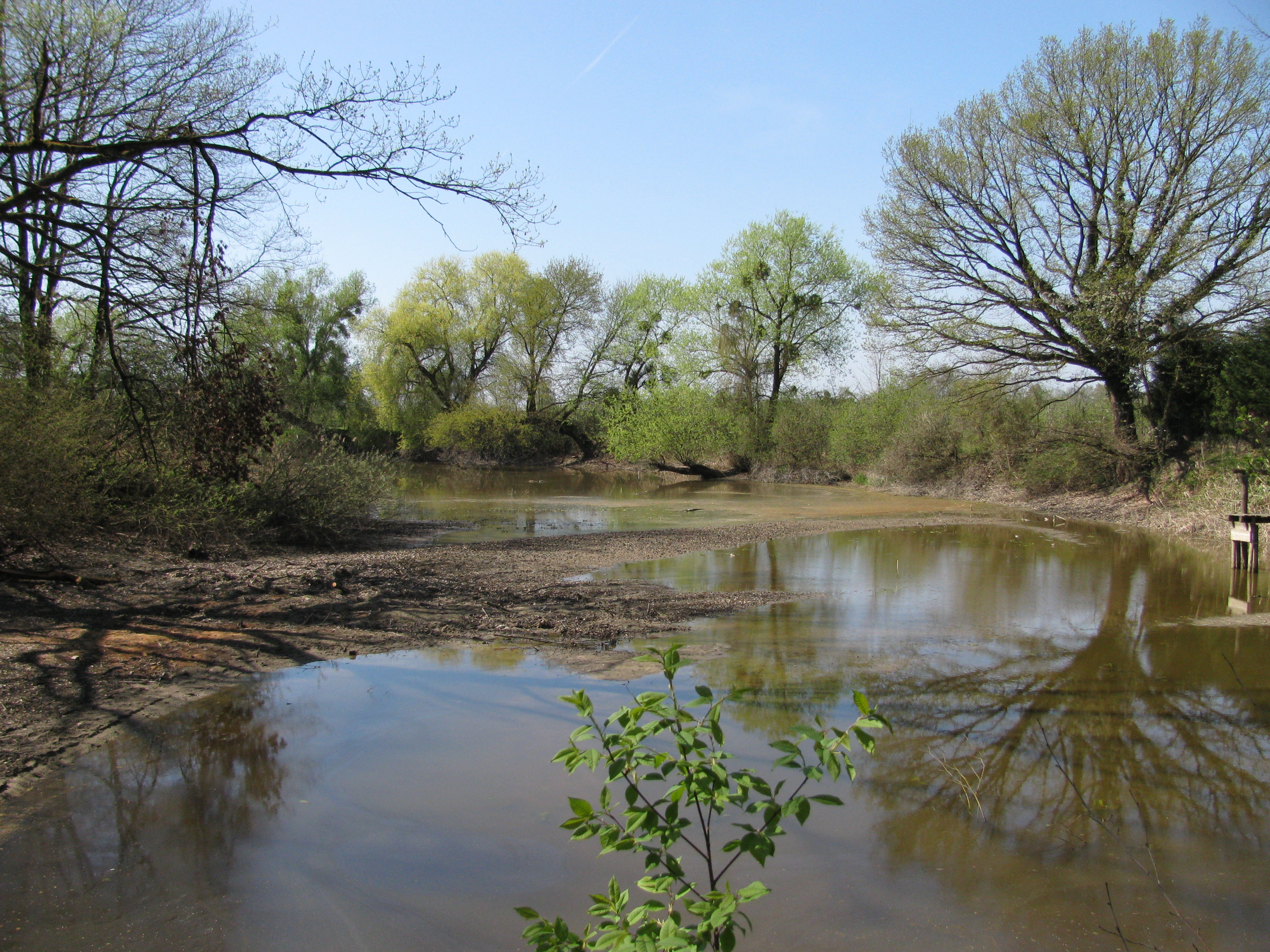 Germany - Baden-Württemberg - Bodensee - Eriskirch: "Eriskircher Ried"